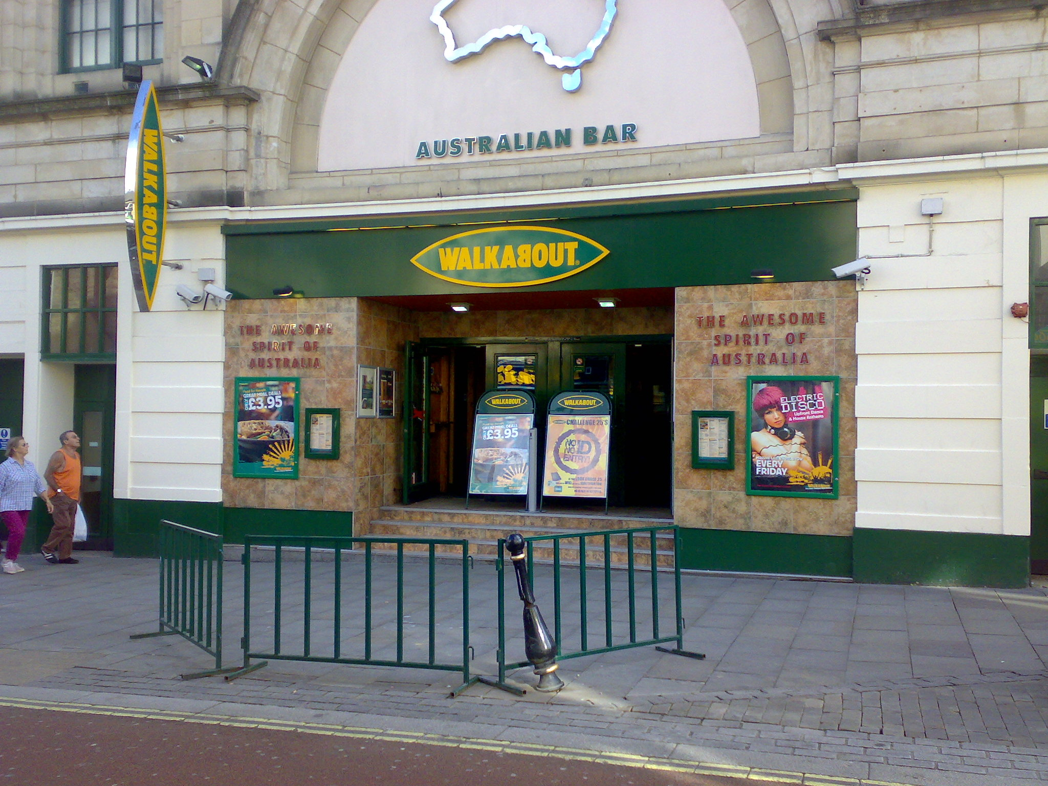 Walkabout in Durham. Taken on July 24, 2007 by Hoardmaster.